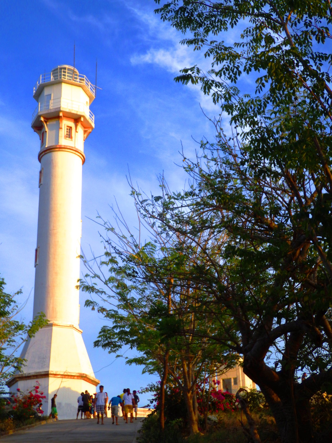 lighthouse